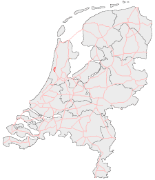 Location of Netherland's Rijkweg 22 (Motorway)